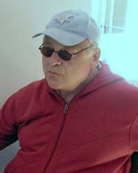 Mikhail Umansky, 2009 at Augsburg, Photographer Gerhard Hund.